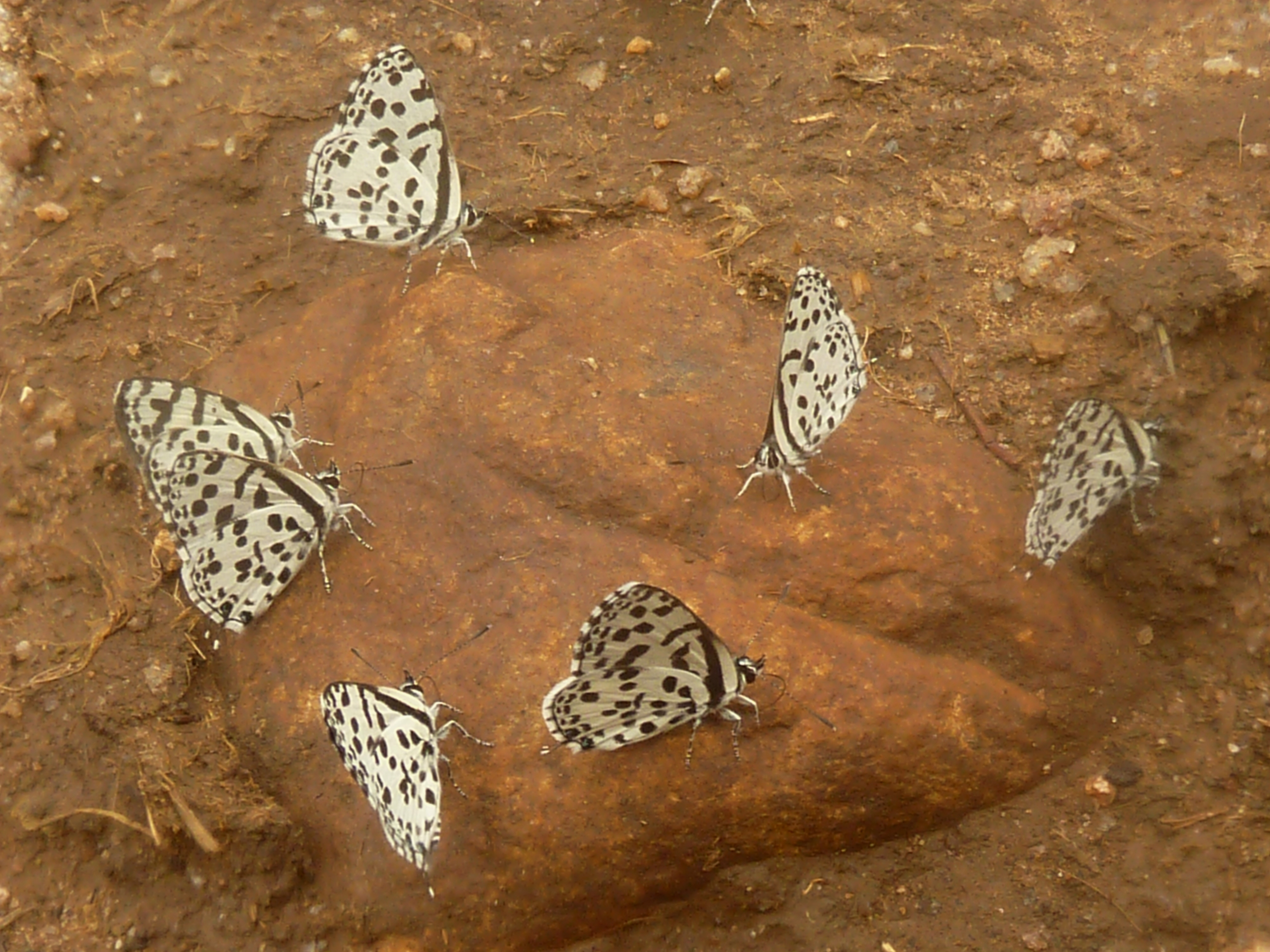 Zintha hintza hintza & Tuxentius calice sipping minerals from a wet rock, Skeerpoort, North West